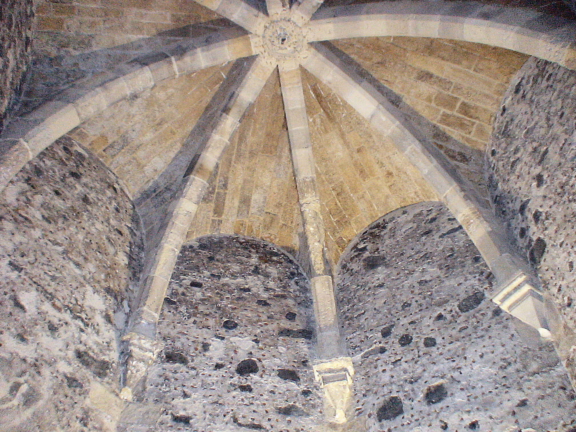 A vault of Torre dei martiri, Castello Ursino, Catania, Sicily.